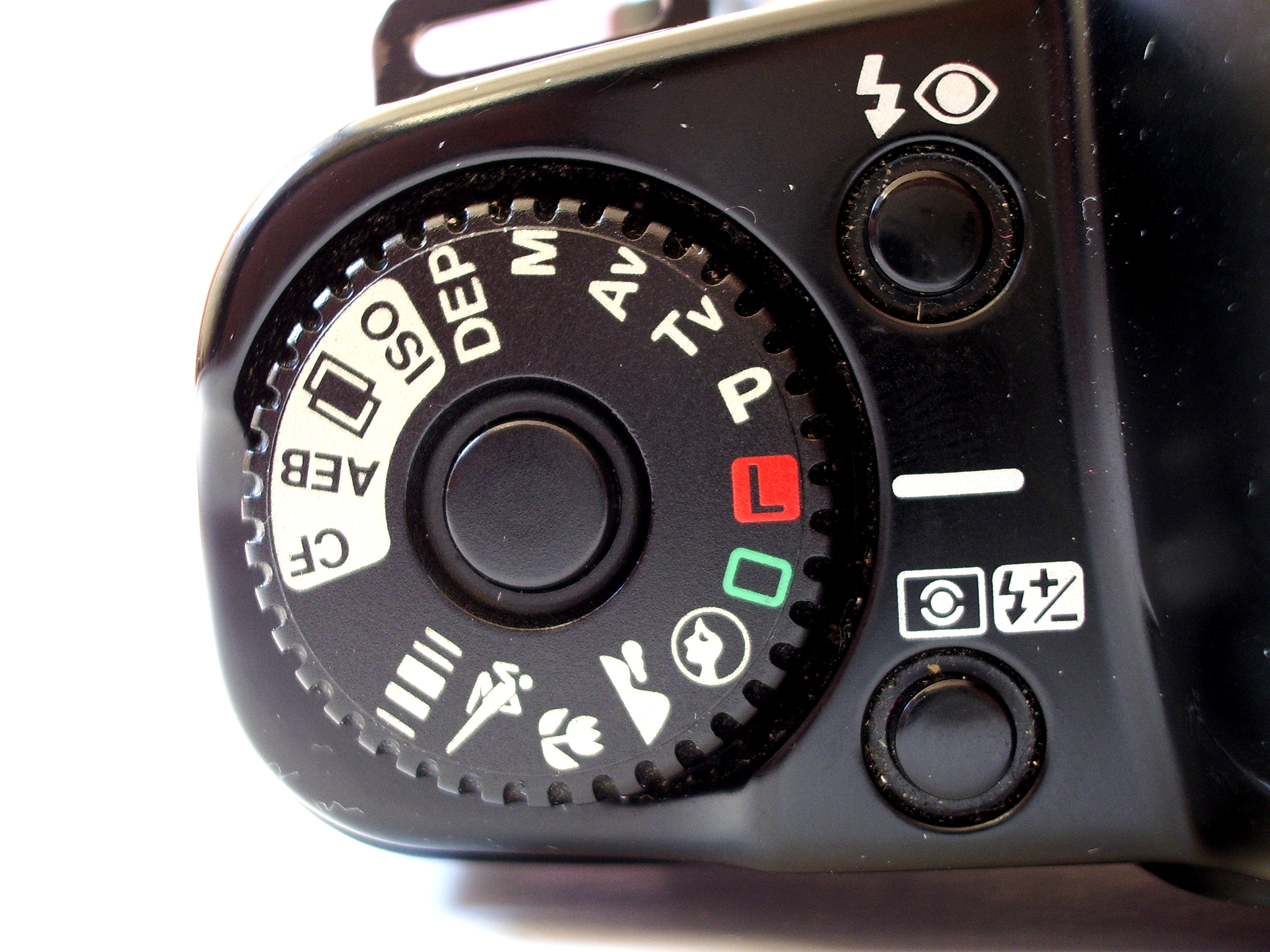 Canon EOS 100 top left, showing the Command Dial, Metering Button and Flash Button.